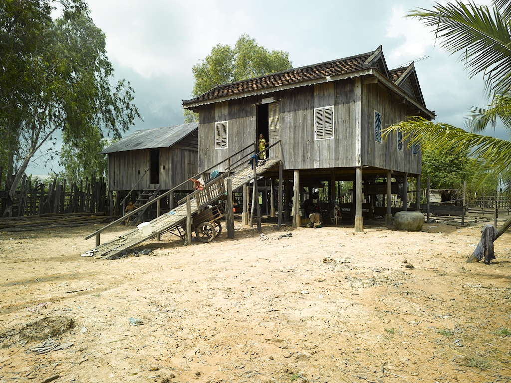 Access (ramp) to the upper floor is a special feature of Khmer houses